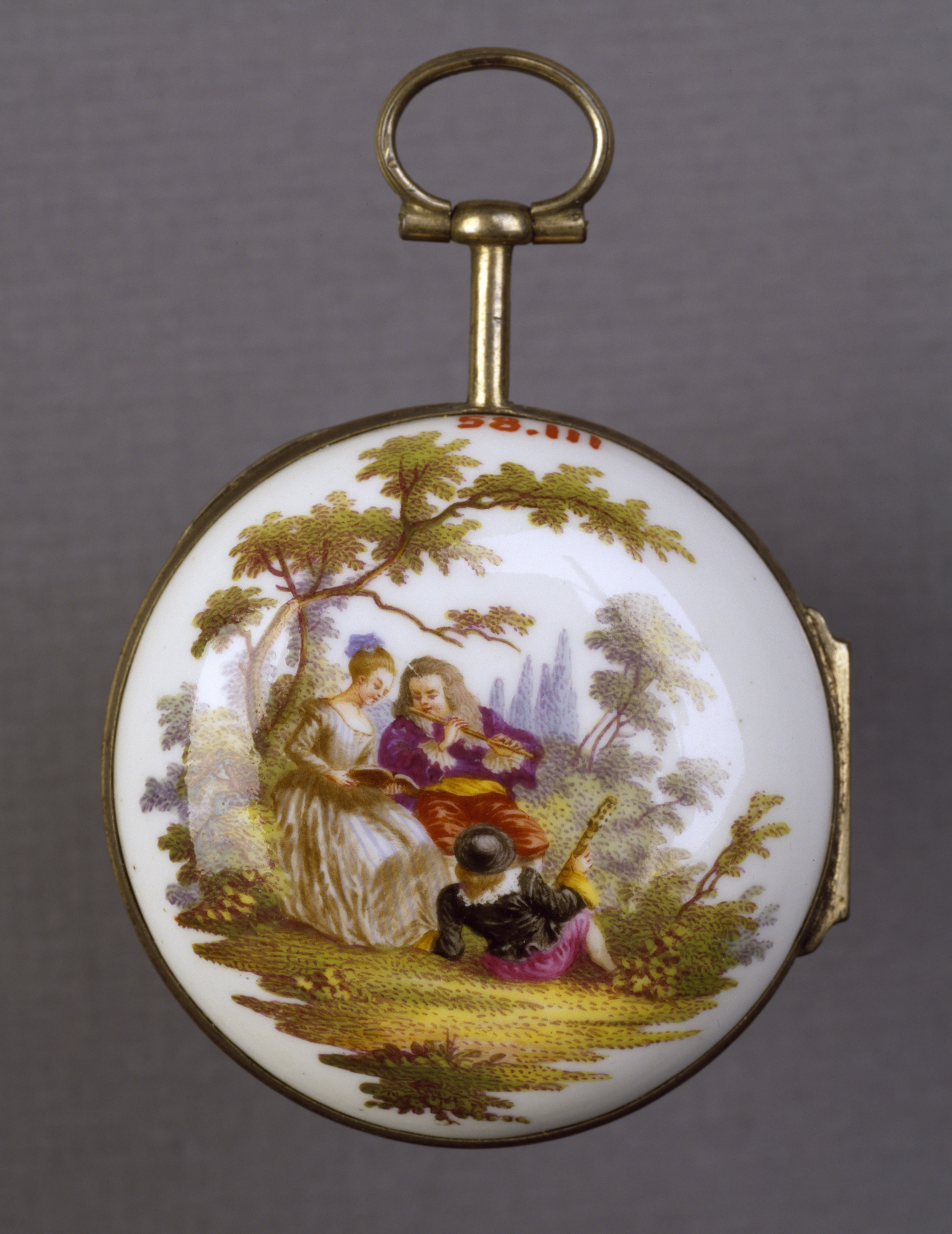 This watchcase is decorated with a scene of a man playing a flute, a girl singing, and a second man reclining, holding the neck of a stringed instrument. The composition is derived from L'Accord Parfait (Perfect Accord) ca. 1719 by Antoine Watteau (1684-1721), now in the collection of the Los Angeles County Museum of Art (AC1999.18.1).